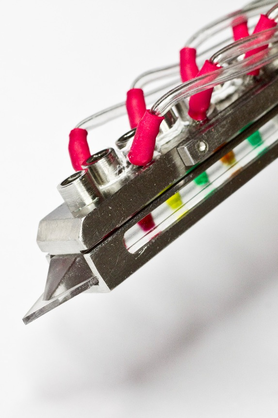 A Multifunctional pipette assembled in a manifold holder. The colored solutions highlight the sample wells in the pipette.